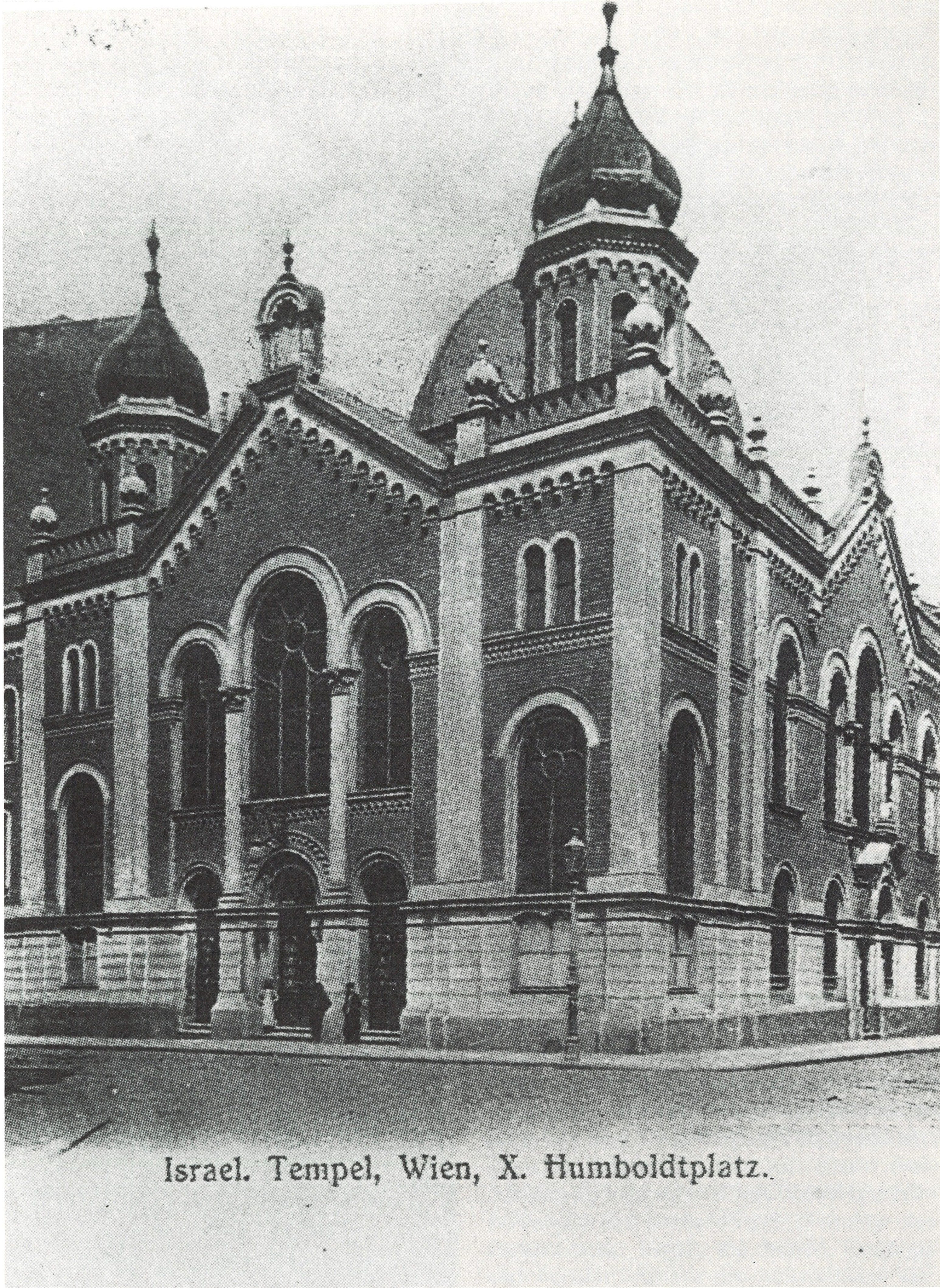 Image of the Humboldttempel in Vienna